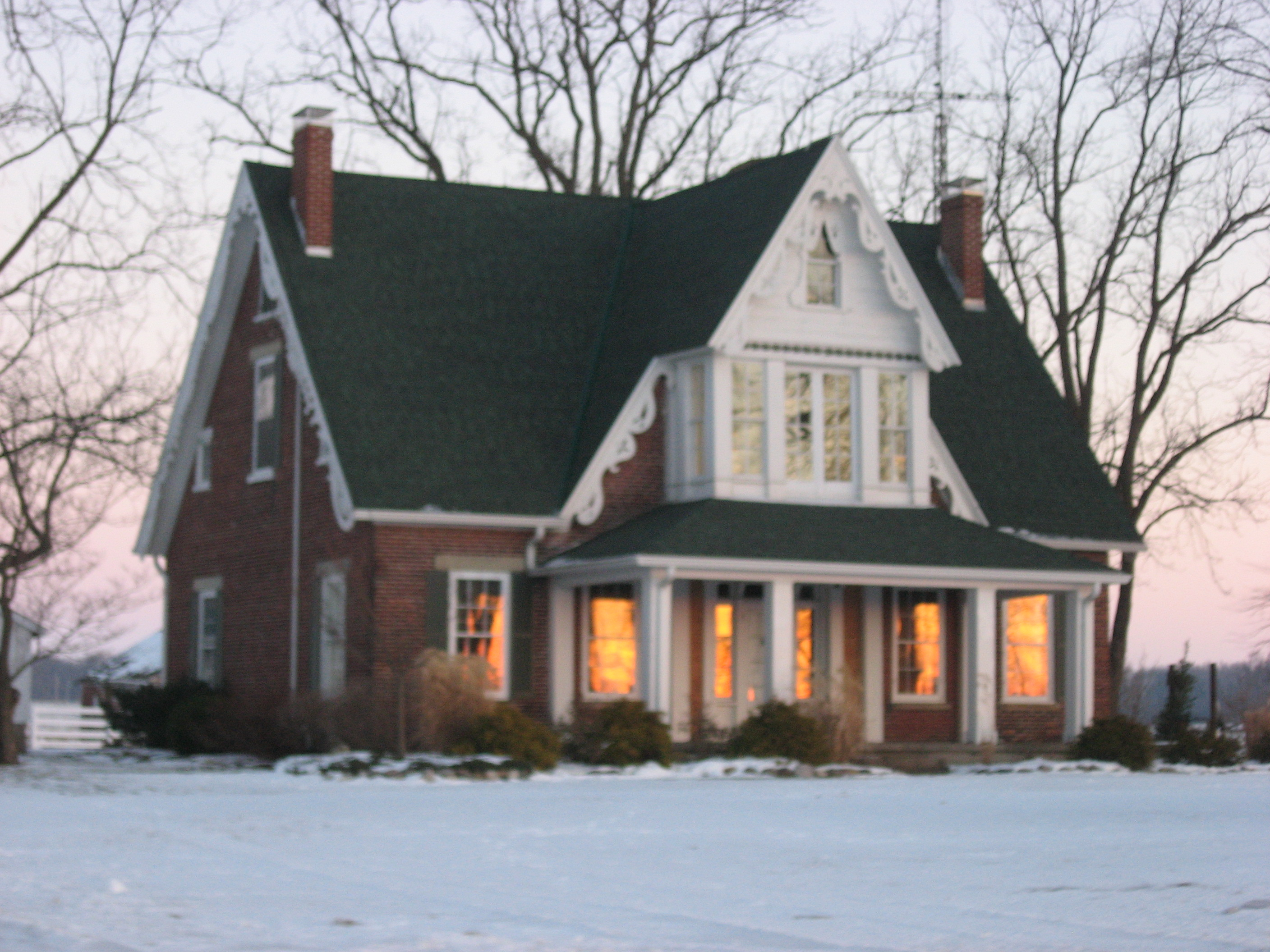 Front and northern side of the Halderman-Van Buskirk Farmhouse, located at 5653 N700W south of Roann in Paw Paw Township, Wabash County, Indiana, United States. Built in 1865, it is listed on the National Register of Historic Places along with the rest of the farmstead, which has been designated a historic district.